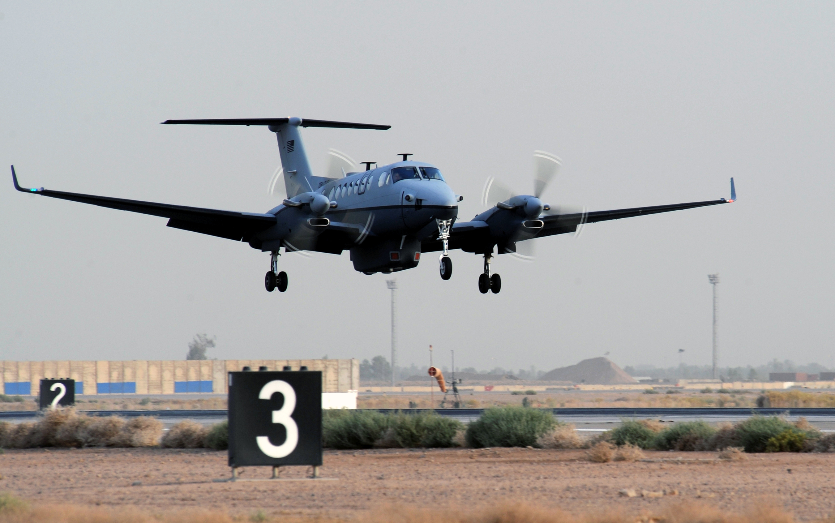 The first MC-12 Liberty aircraft in-theater lands after its first combat sortie at approximately 6:20 p.m. local time June 10 at Joint Base Balad, Iraq. The Air Force's newest intelligence, surveillance and reconnaissance platform, the MC-12 is a medium-altitude manned special-mission turbo prop aircraft that supports coalition and joint ground forces.